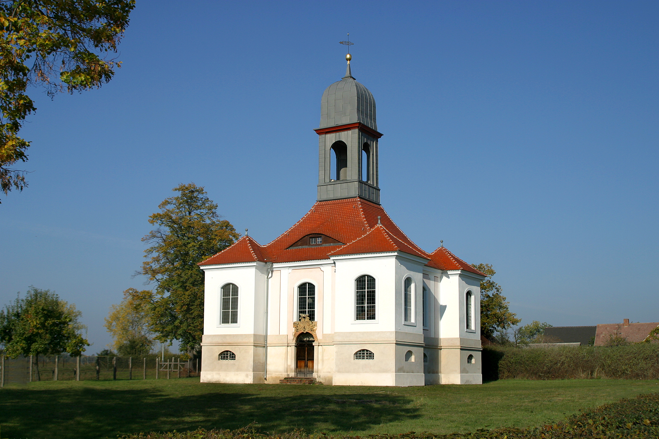 Manor Chapel in Reuden, town of Calau, Brandenburg, Germany